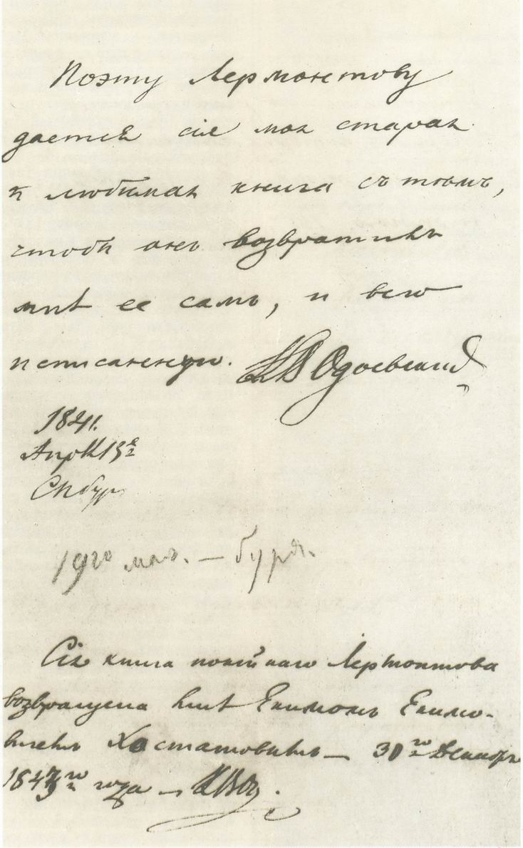 Dedication of V. F. Odoevsky in a note-book presented by him to Lermontov